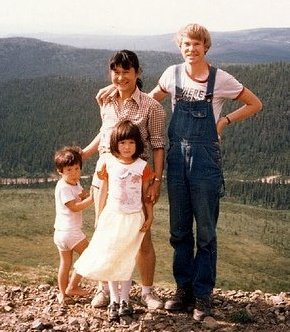 The family reaches Alaska in early summer, 1983